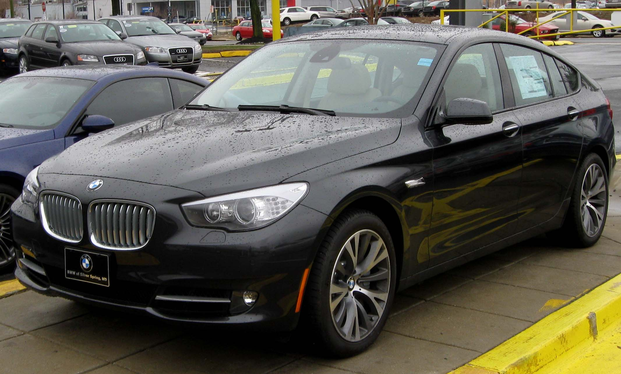 2010 BMW 550i GT photographed in Silver Spring, Maryland, USA.